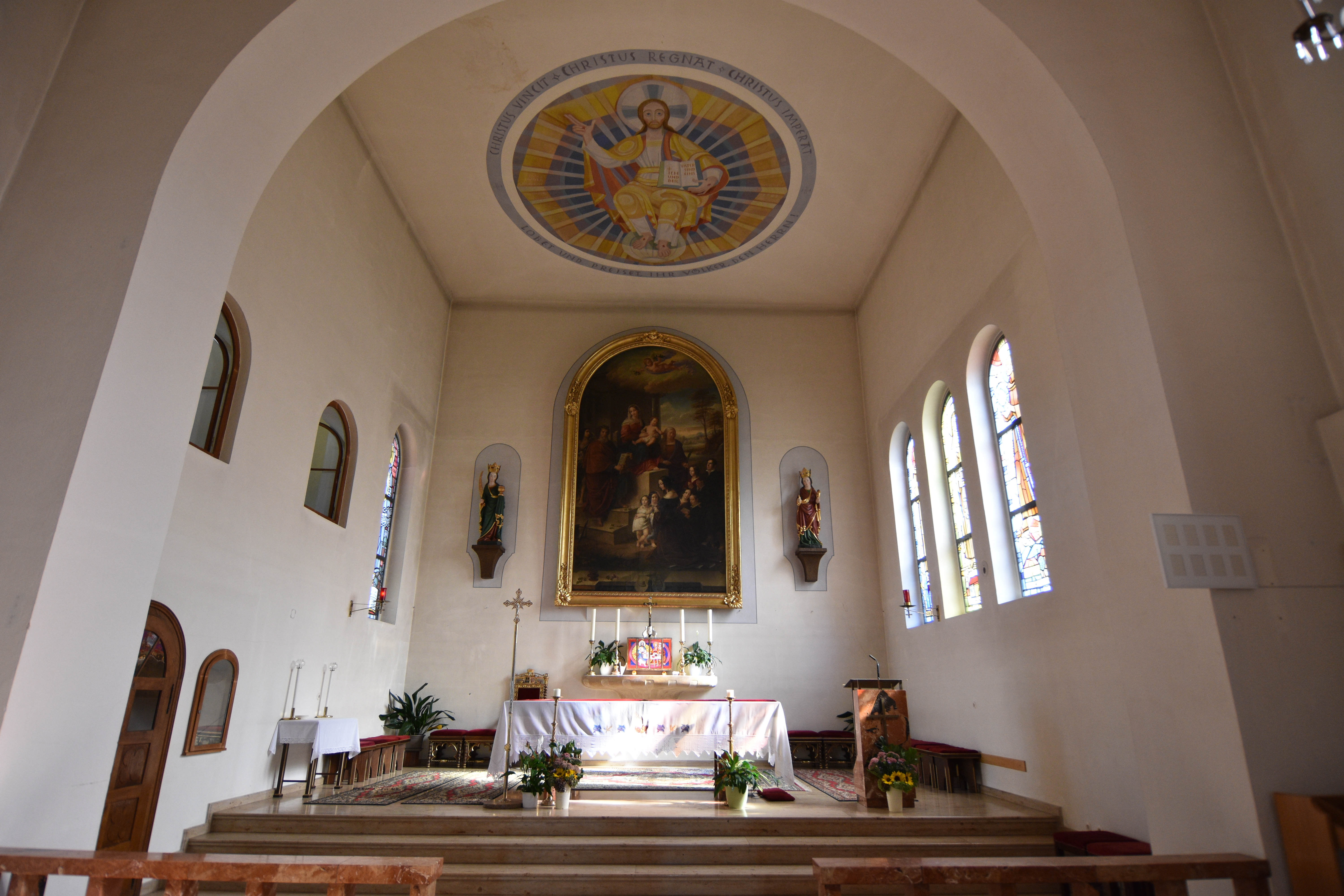 Saint Matthew Church Bad Gleichenberg Interior